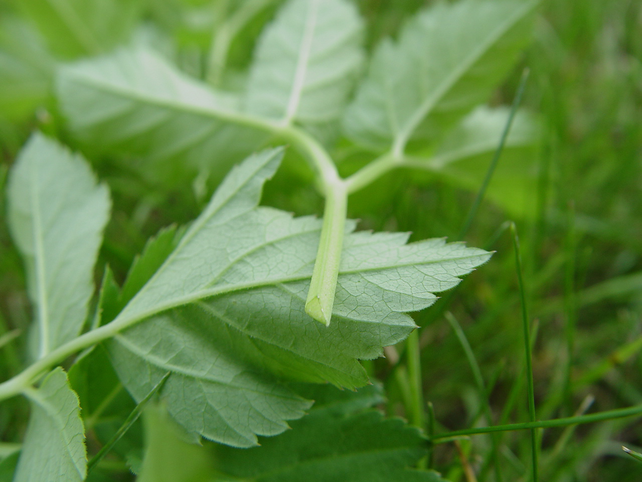 Ground-elder (Aegopodium podagraria), triangular stem profile